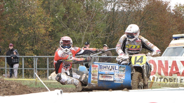 Eric Schrijver & Marc van Deutecom (No 14) at the final round of the German sidecarcross championship in Warching, 18 October 2009, riding a VMC-MTR